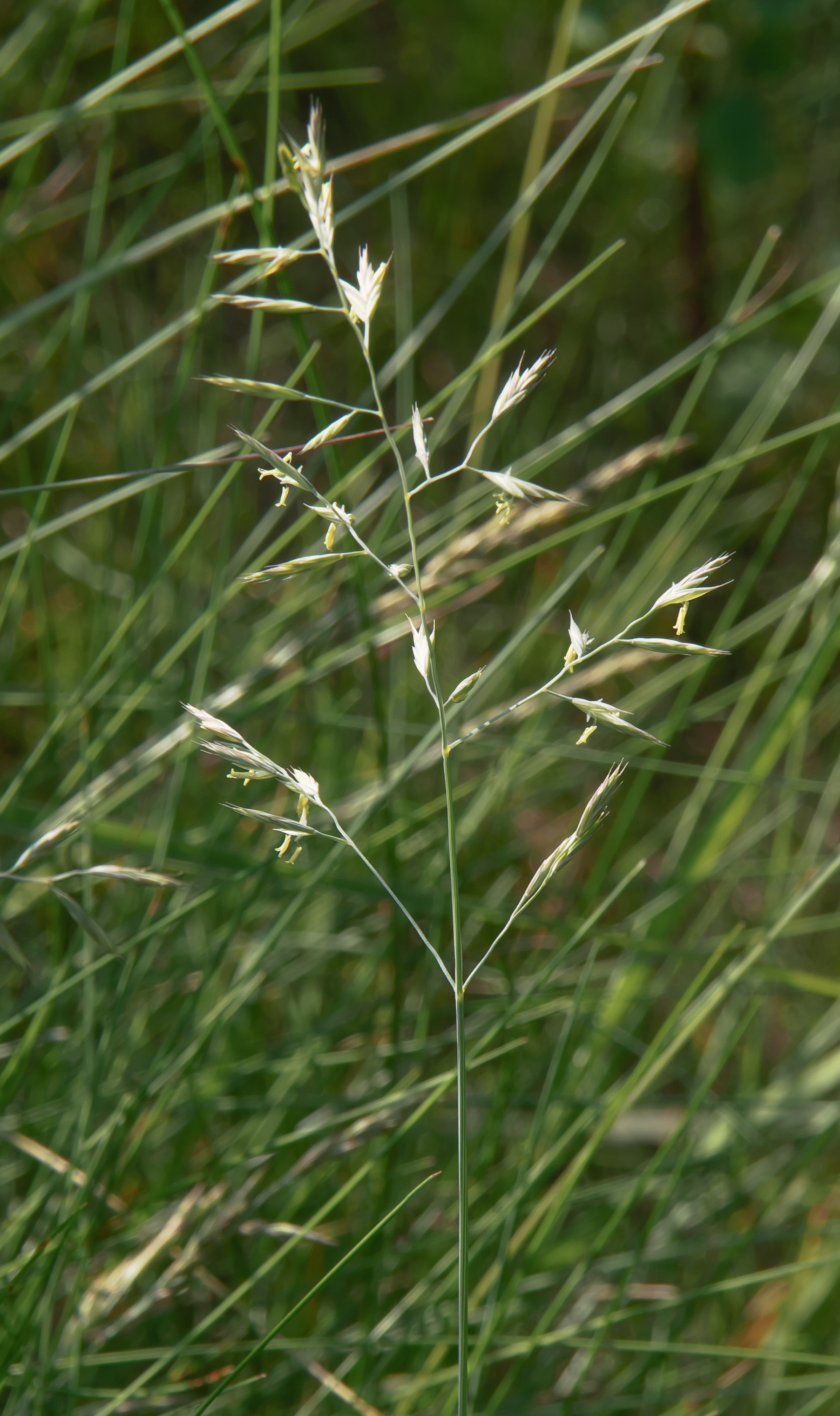 Festuca trachyphylla, flowering